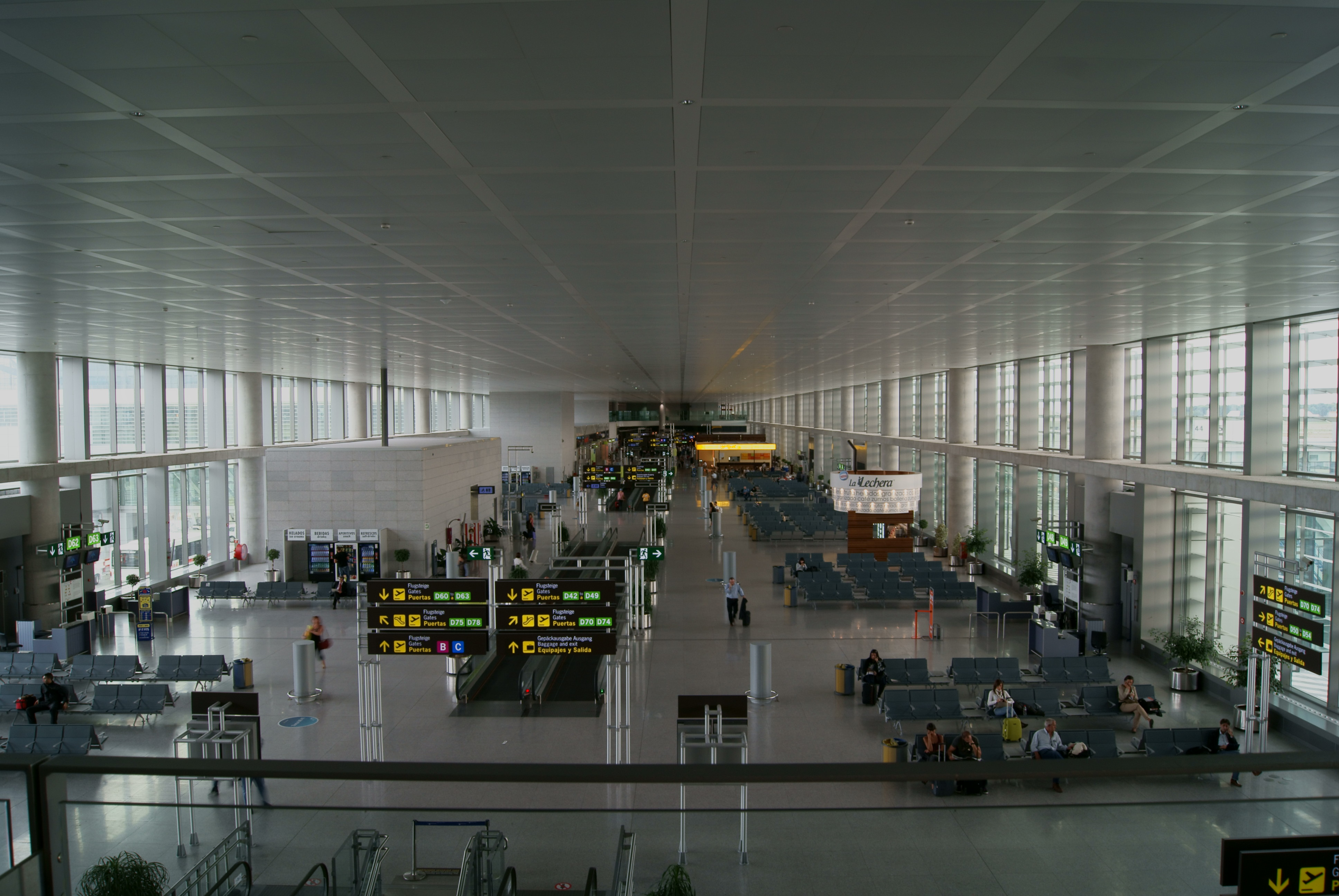 Dock D of the new brand terminal 3 of Málaga airport.